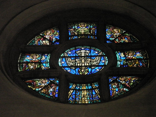 The round window above the altar at Guildford Cathedral Designed by Moira Forsyth